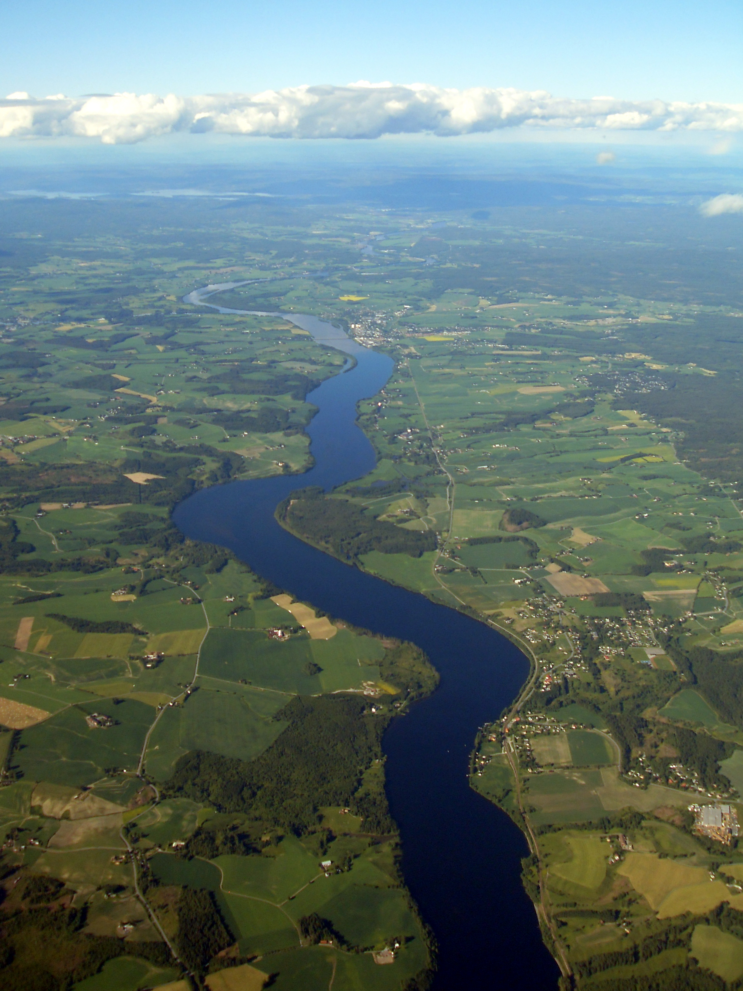 The river Glomma or Glåma in Norway (not Sweden as the filename says). The village in the foreground is Haga, and in the background Årnes, both in Nes Municipality, Akershus County, Norway.